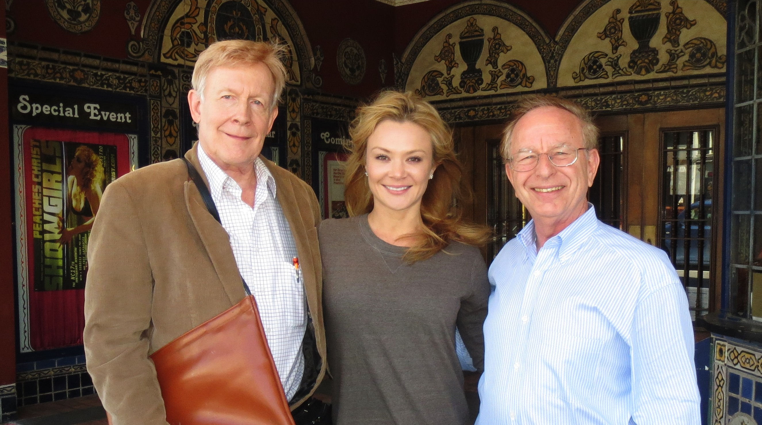 David Hegarty with Lauren Woodland and Harry Garland in front of the Castro Theatre, San Francisco, in August 2014. David Hegarty, Lauren Woodland, and Harry Garland are members of the Board of Directors of the Castro Organ Devotees Association, a 501 (c)3 non-profit organization dedicated to replacing the organ of the Castro Theatre after the Wurlitzer organ (which had been on loan to the Castro Theatre for many years) was removed.